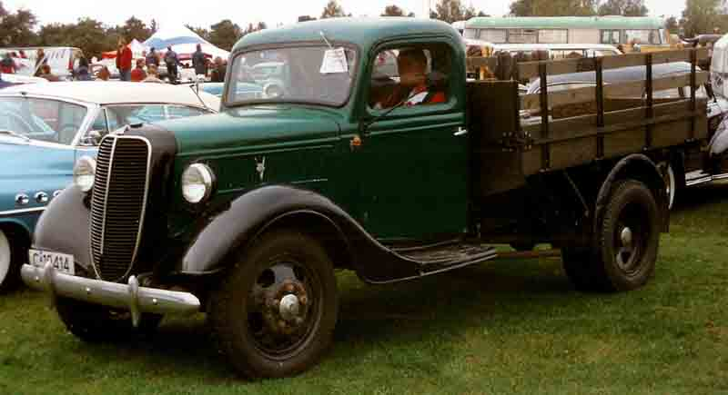 Ford Model 79 Truck 1937